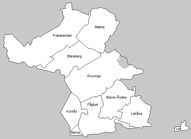 Parishes in Essunga municipality